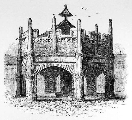 It housed the cistern for water pumped from the Town Mill.